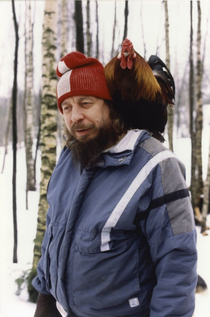 Photograph of the Finnish artist Risto Vilhunen (1945–) with a rooster on his shoulder, at home of the artist, Sotunki, Vantaa, Finland.